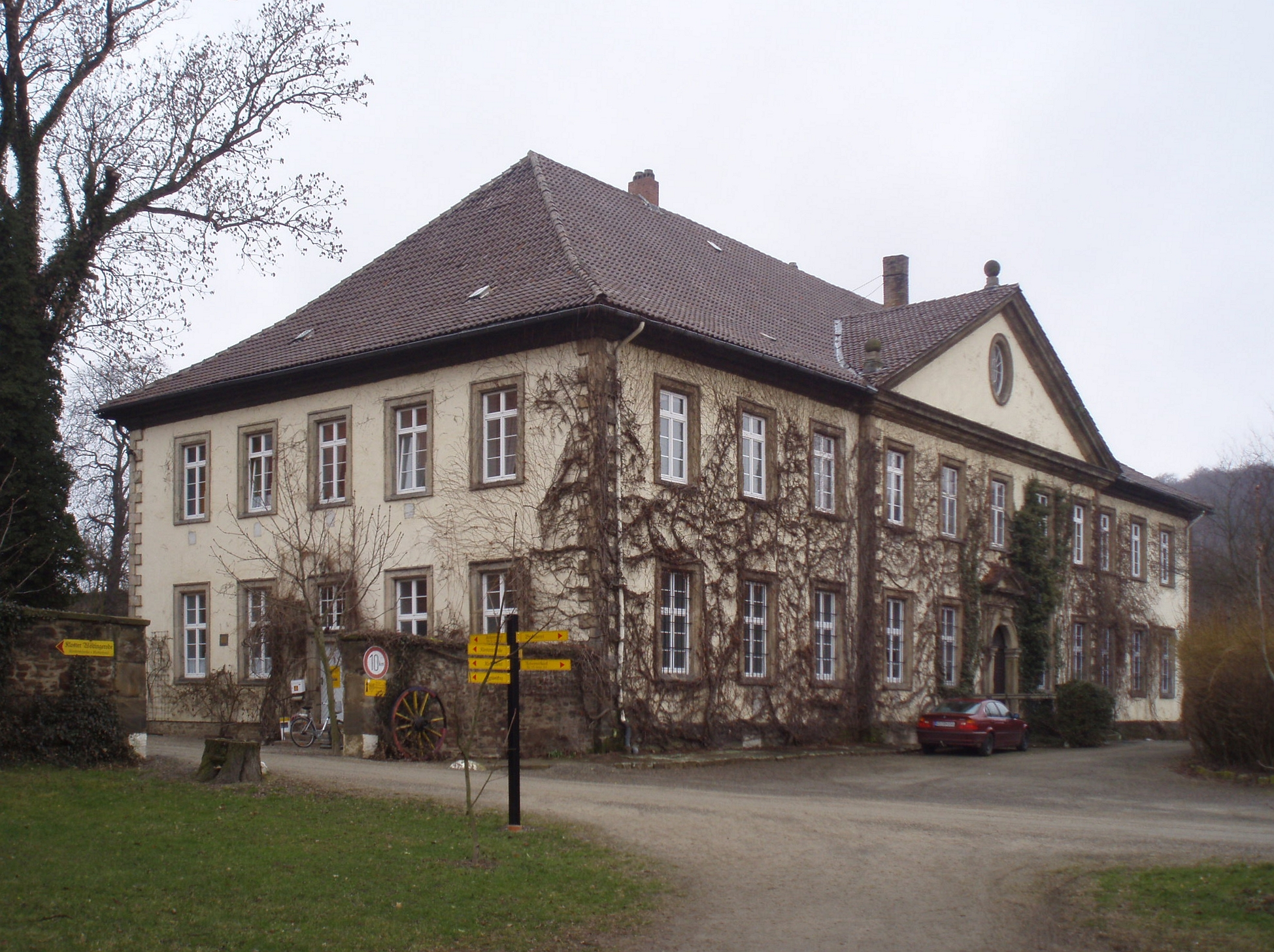 Office Building of Monastery Wöltingerode near Vienenburg in Lower Saxony, Germany